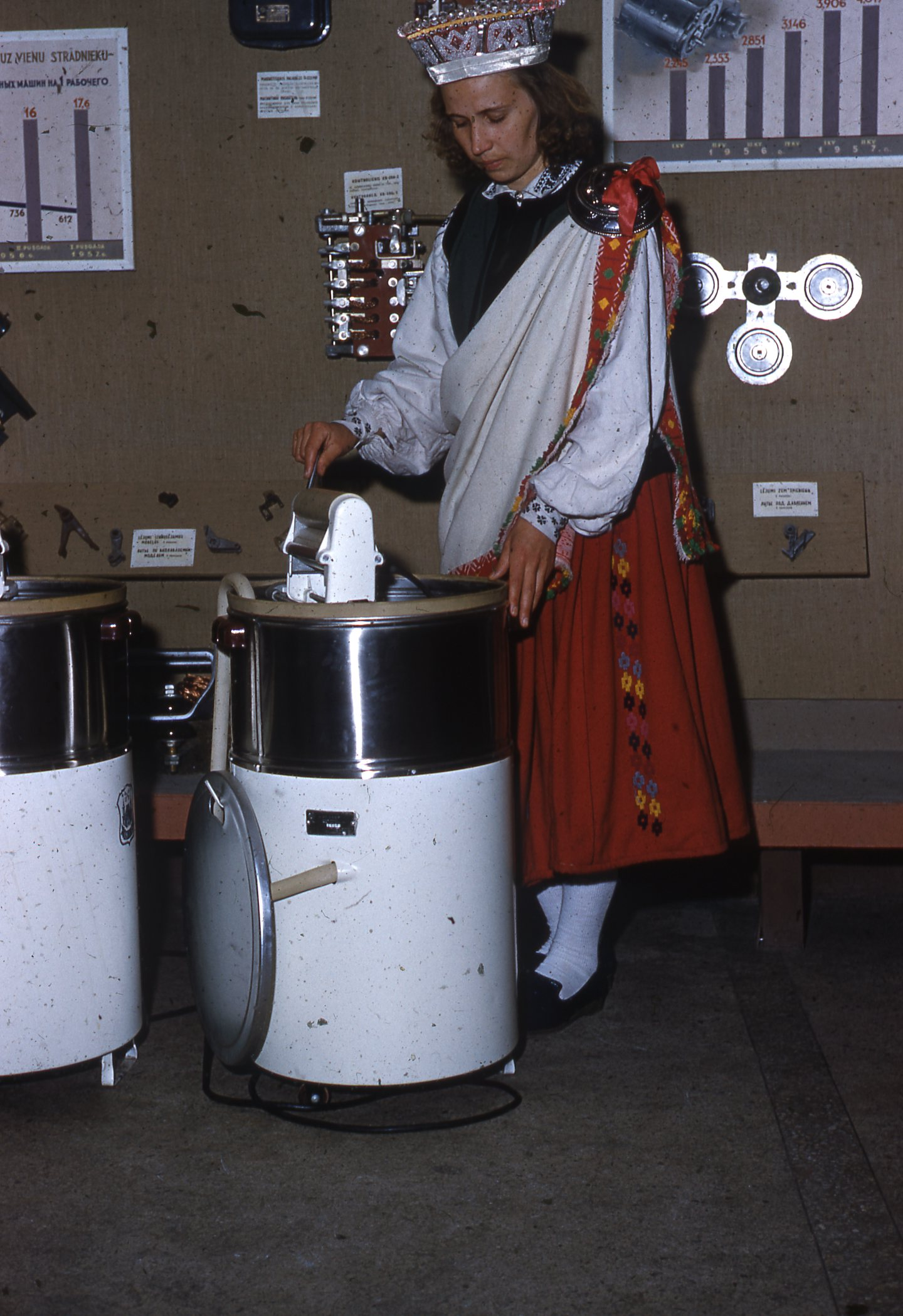 These images were taken by Thomas T. Hammond during his trip to the Soviet Union and the box is labeled "Best photos from 1956-1958." // The signs are in Latvian and the costume is too.